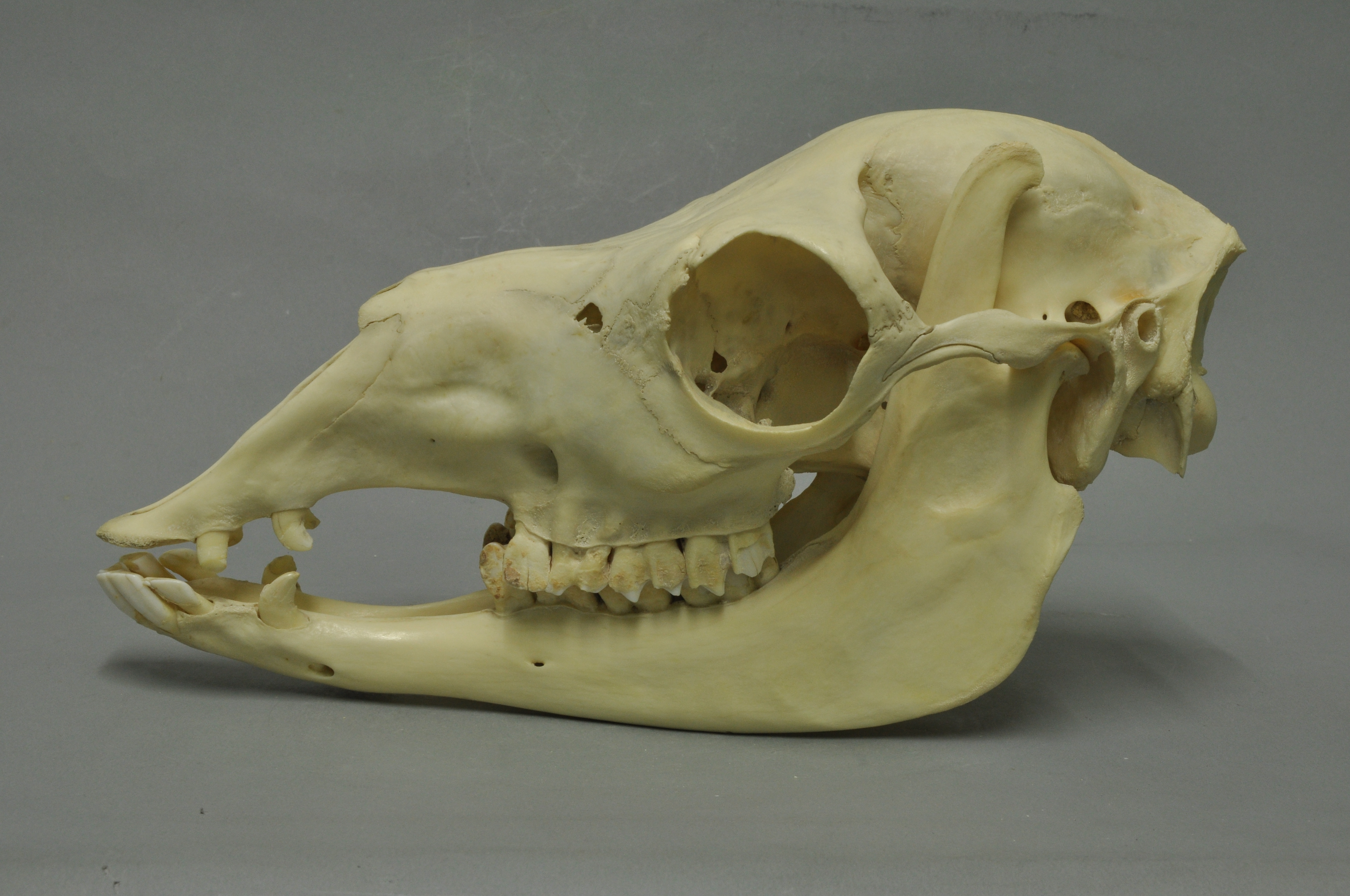 GuanacoLama guanicoe , skull, Coll. Museum Wiesbaden